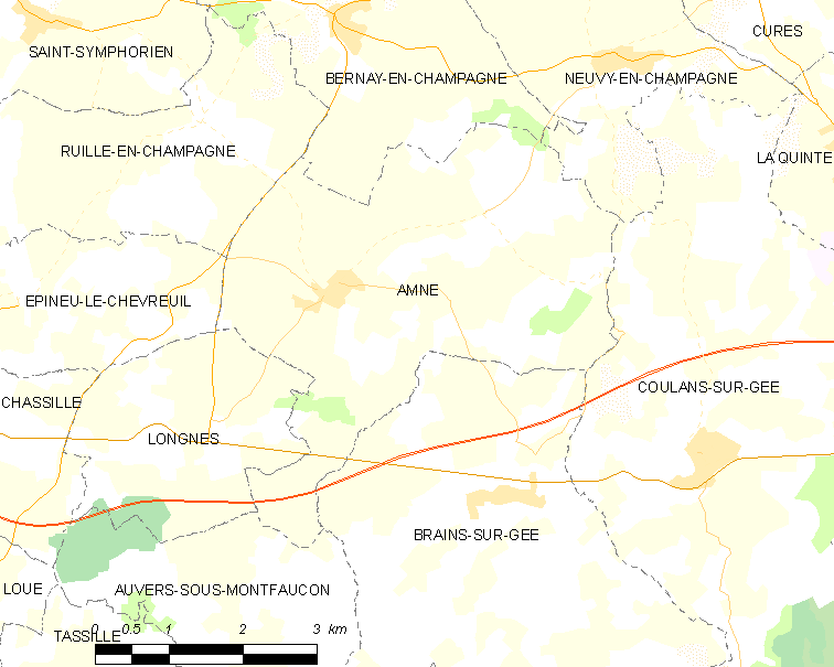 Map of French municipality